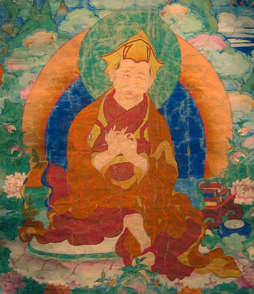 The First Purchok, Ngawang Jampa b.1682 - d.1762